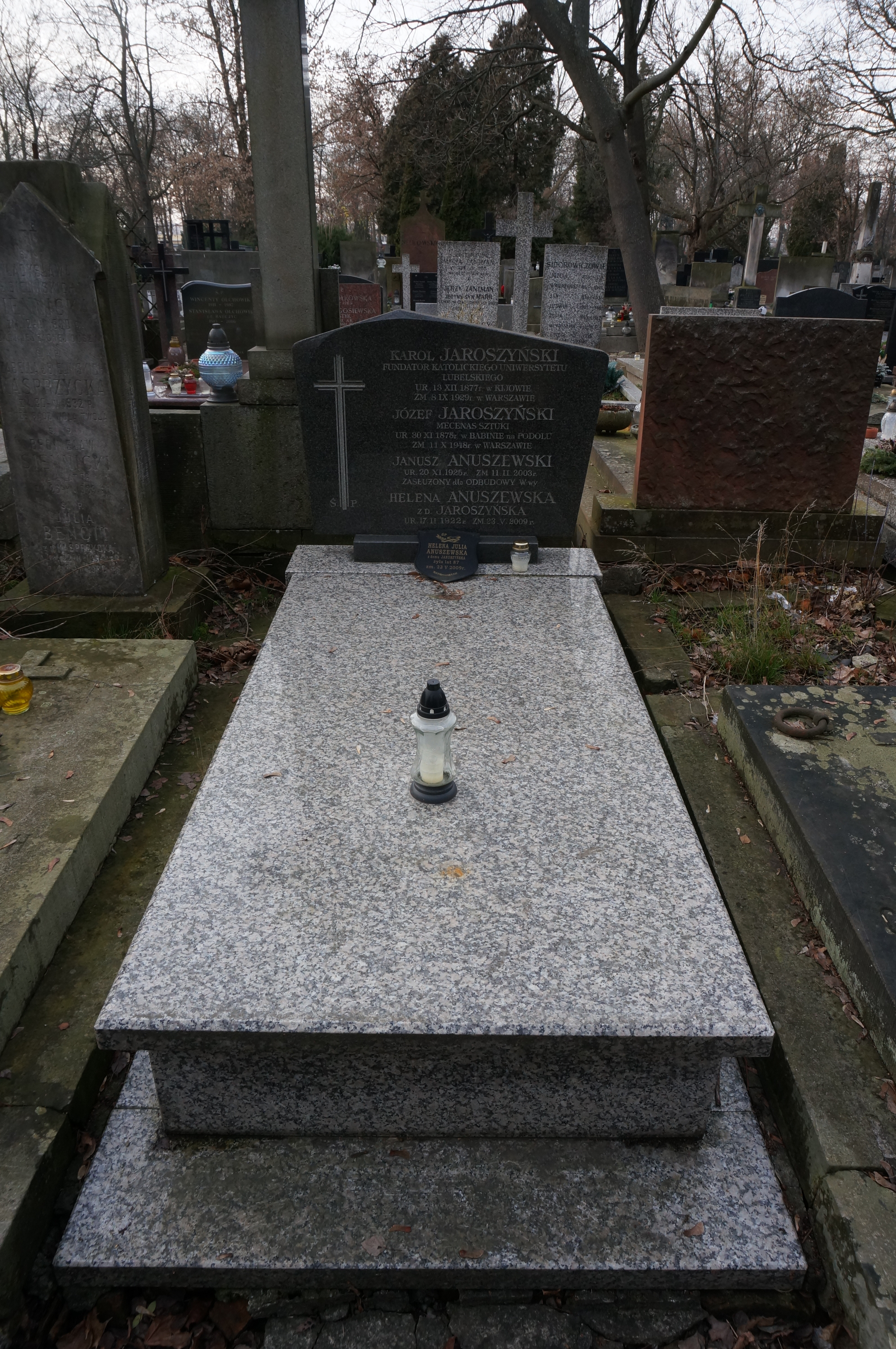 The grave of Karol Jaroszyński at the Powązki Cemetery (section 227, row 3, grave 23)